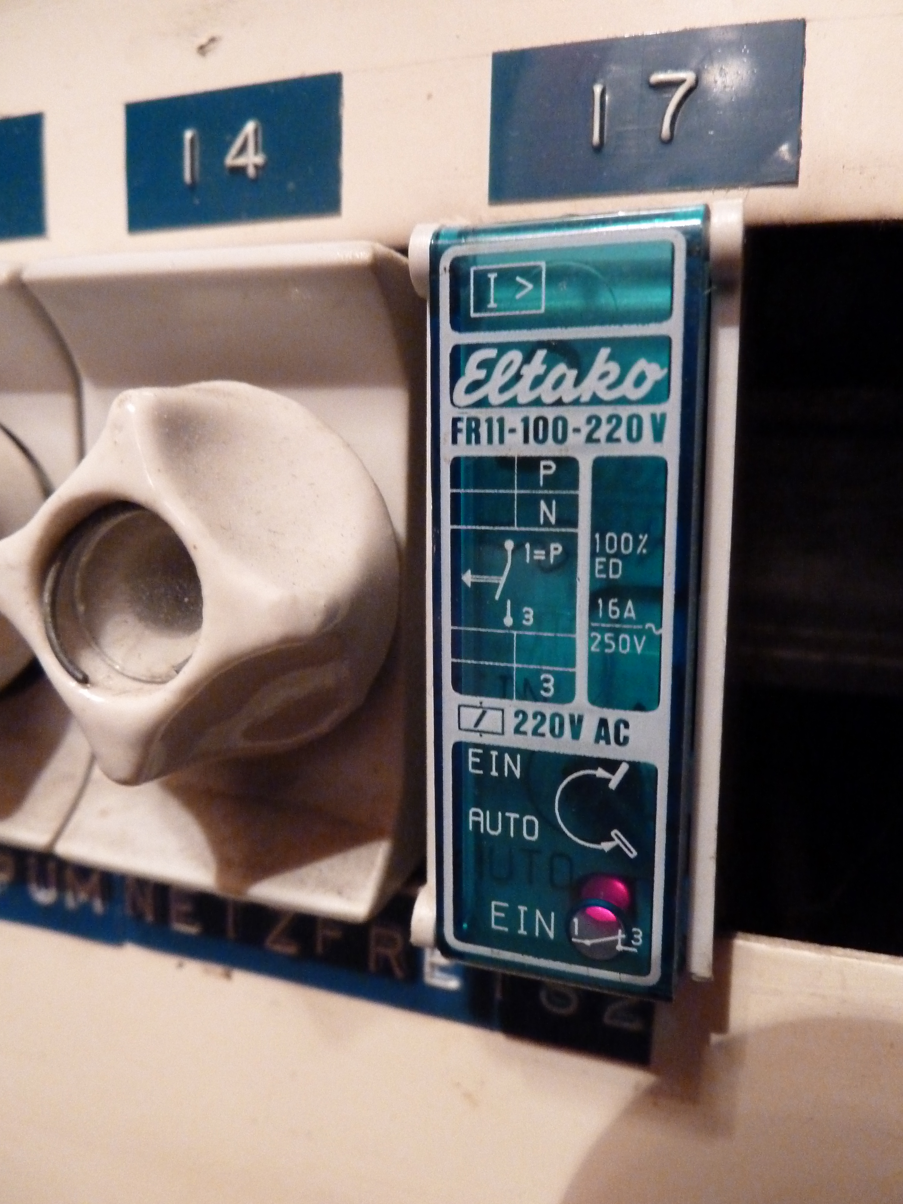 Priority relay: disables non-importance load if maximum current is overlimited.